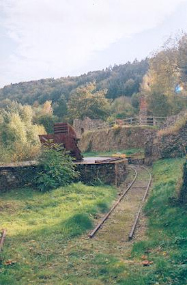 Rusting rails. Snailbeach Lead Mining Museum